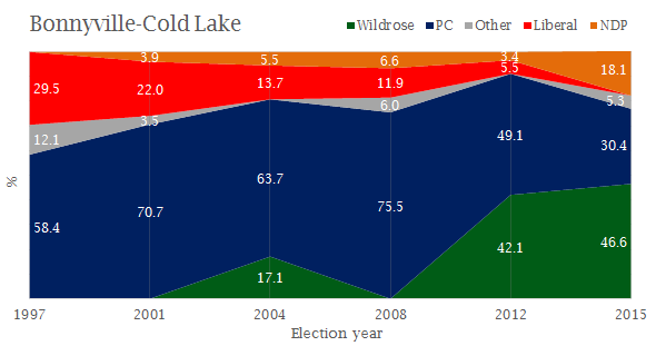 Graph of election results by party in the Alberta electoral district of Bonnyville-Cold Lake.